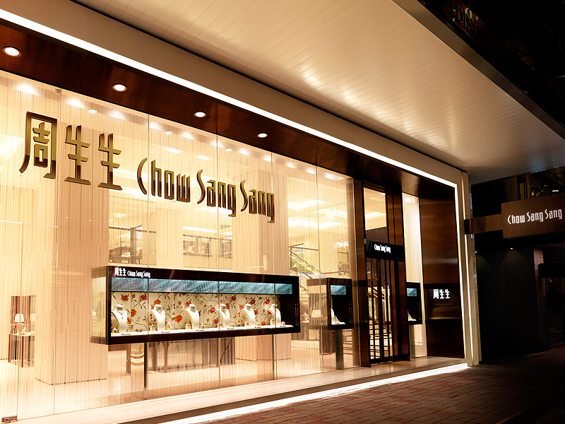 Chow Sang Sang store in Central, Hong Kong